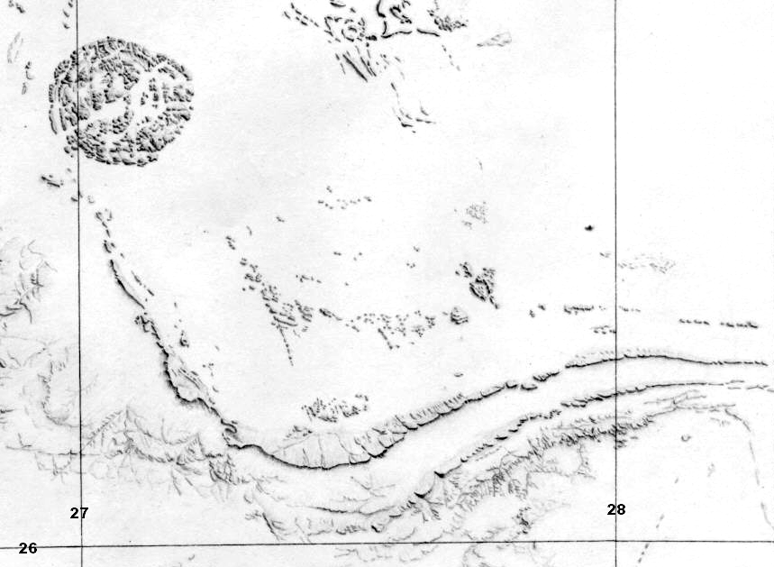 Relief map of the Pilanesberg and Magaliesberg, North West Province, South Africa